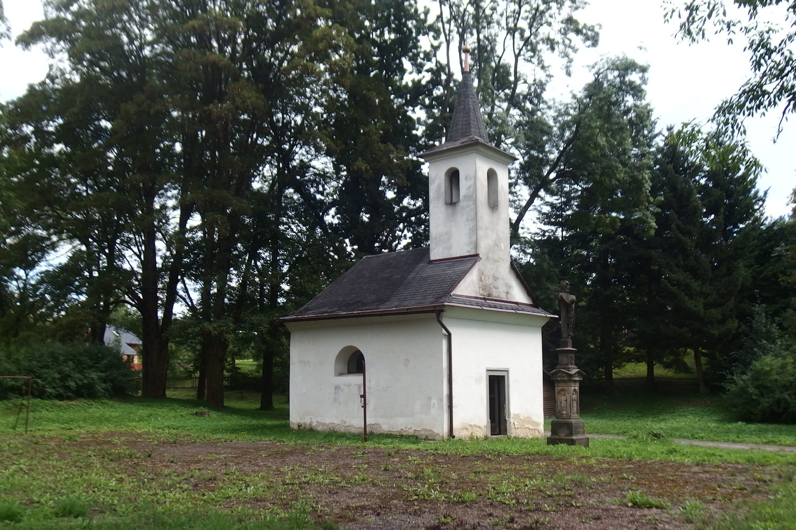 Gruna, Svitavy District, Czech Republic, part Žipotín.